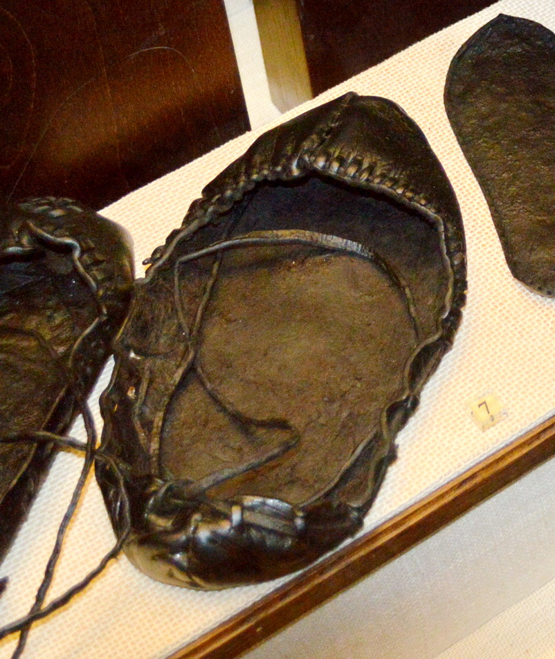 Shoe, Novgorod, 12-13 c.